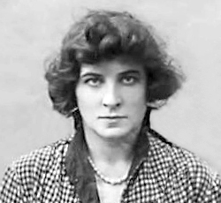 Passport photograph of Ganna Walska